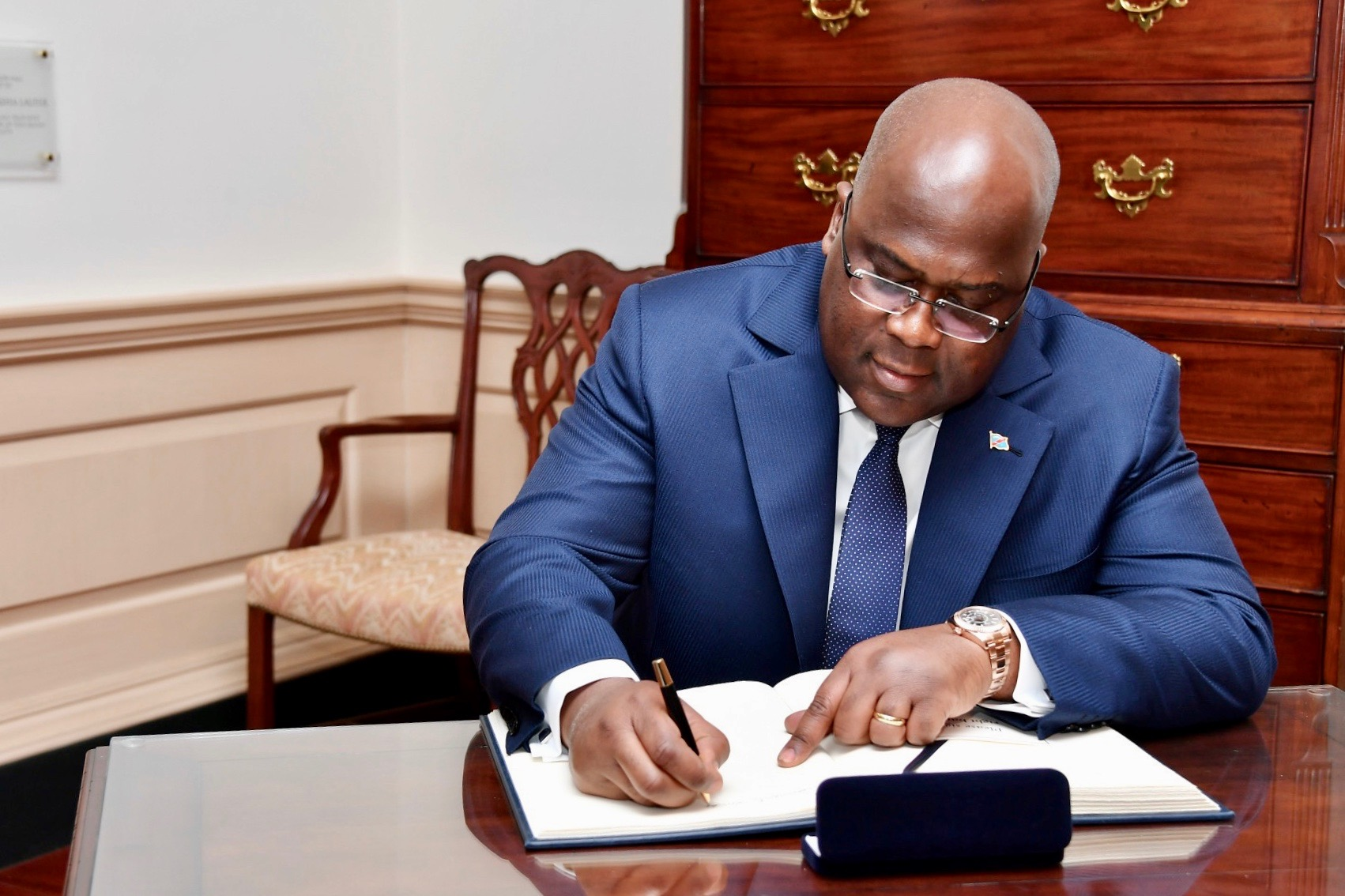 Republic of the Congo President Felix Tshisekedi signs Secretary Pompeo's guestbook before their meeting at the U.S. Department of State in Washington, D.C., on April 3, 2019. [State Department photo by Michael Gross/ Public Domain]